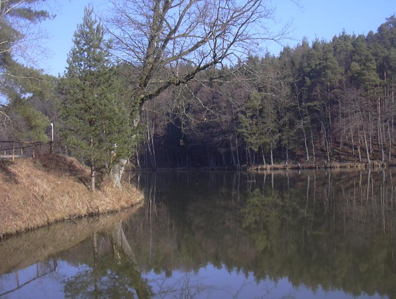 Finsterroter See, a lake near Wüstenrot, Germany